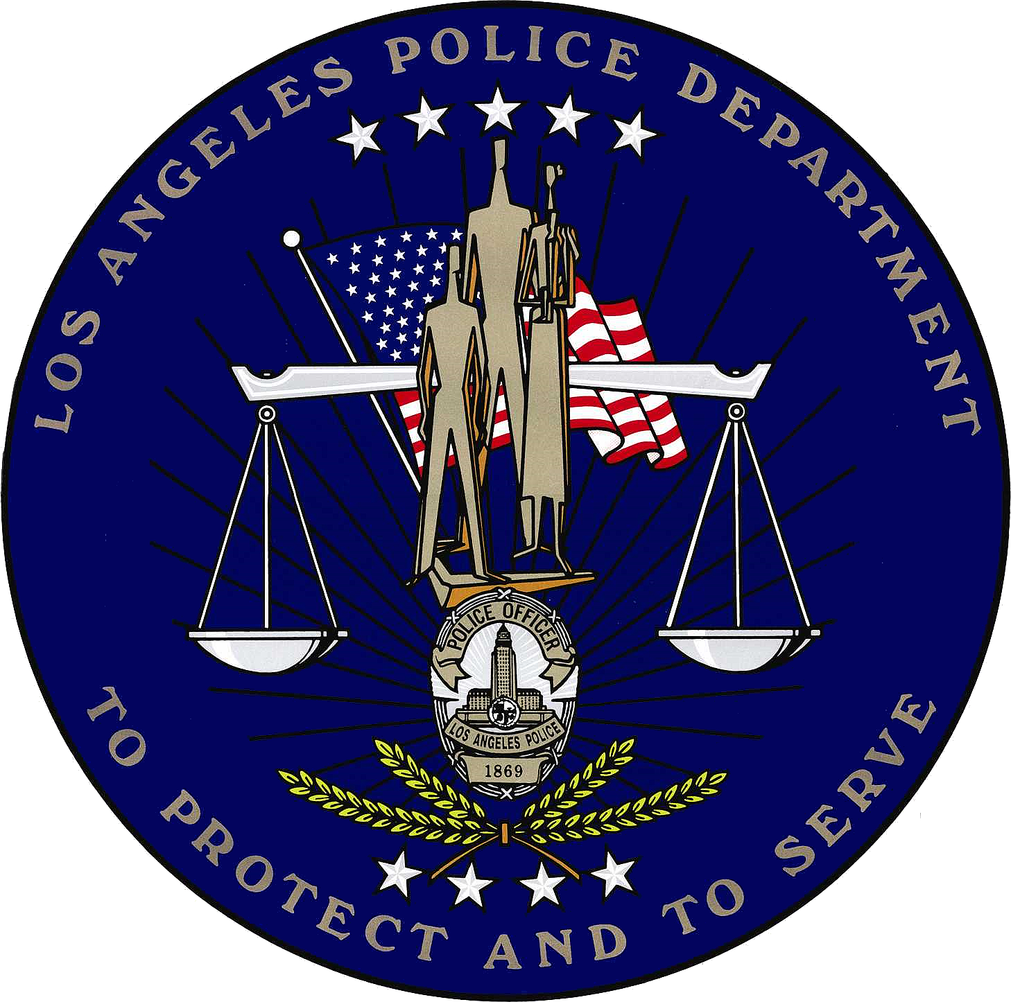 The official seal of the Los Angeles Police Department (LAPD).